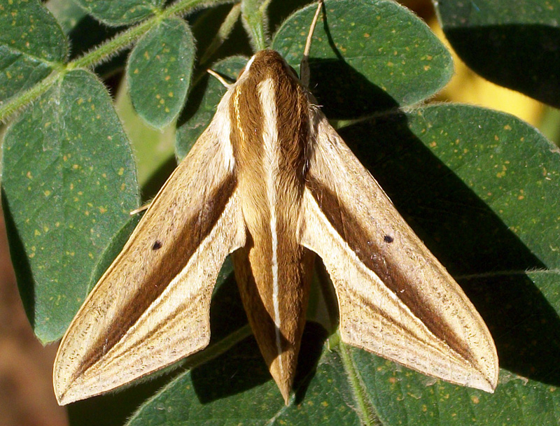 Brown-Banded Hunter Hawkmoth Theretra silhetensis in Mangaon.